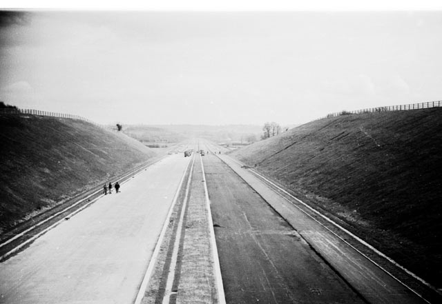 M4 Under Construction This section is now the M48. [Looking SE]